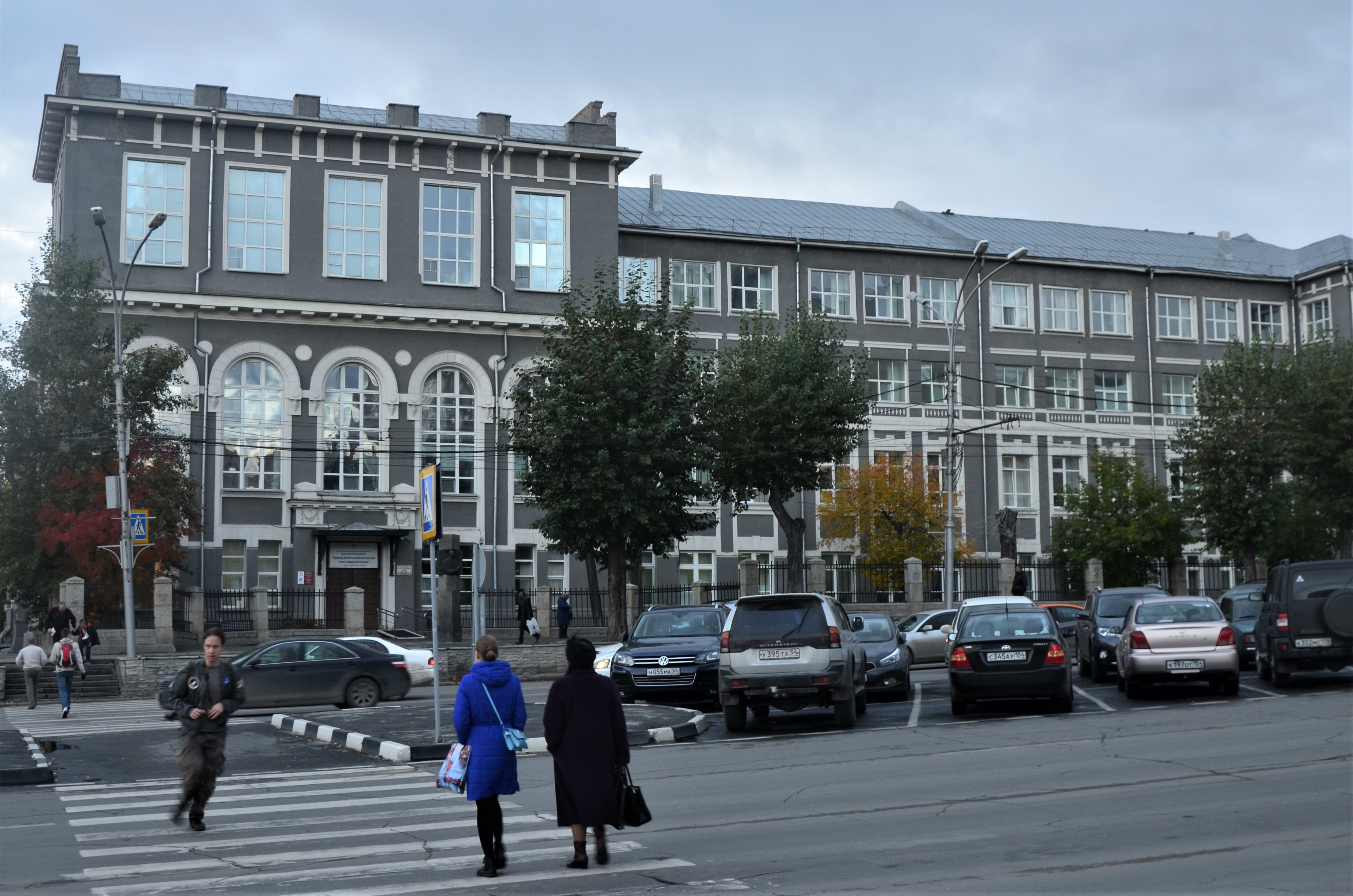 School of the House of Romanov at Krasny Avenue 3, in Novosibirsk, Russia.